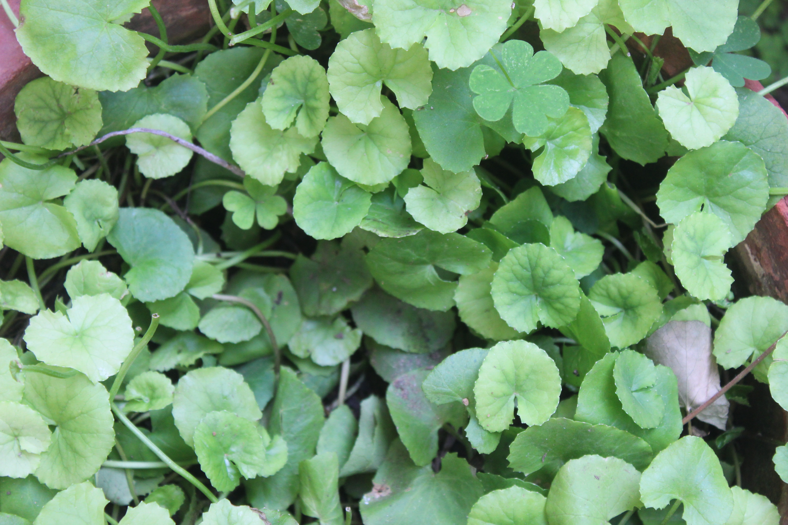 Ondelaga